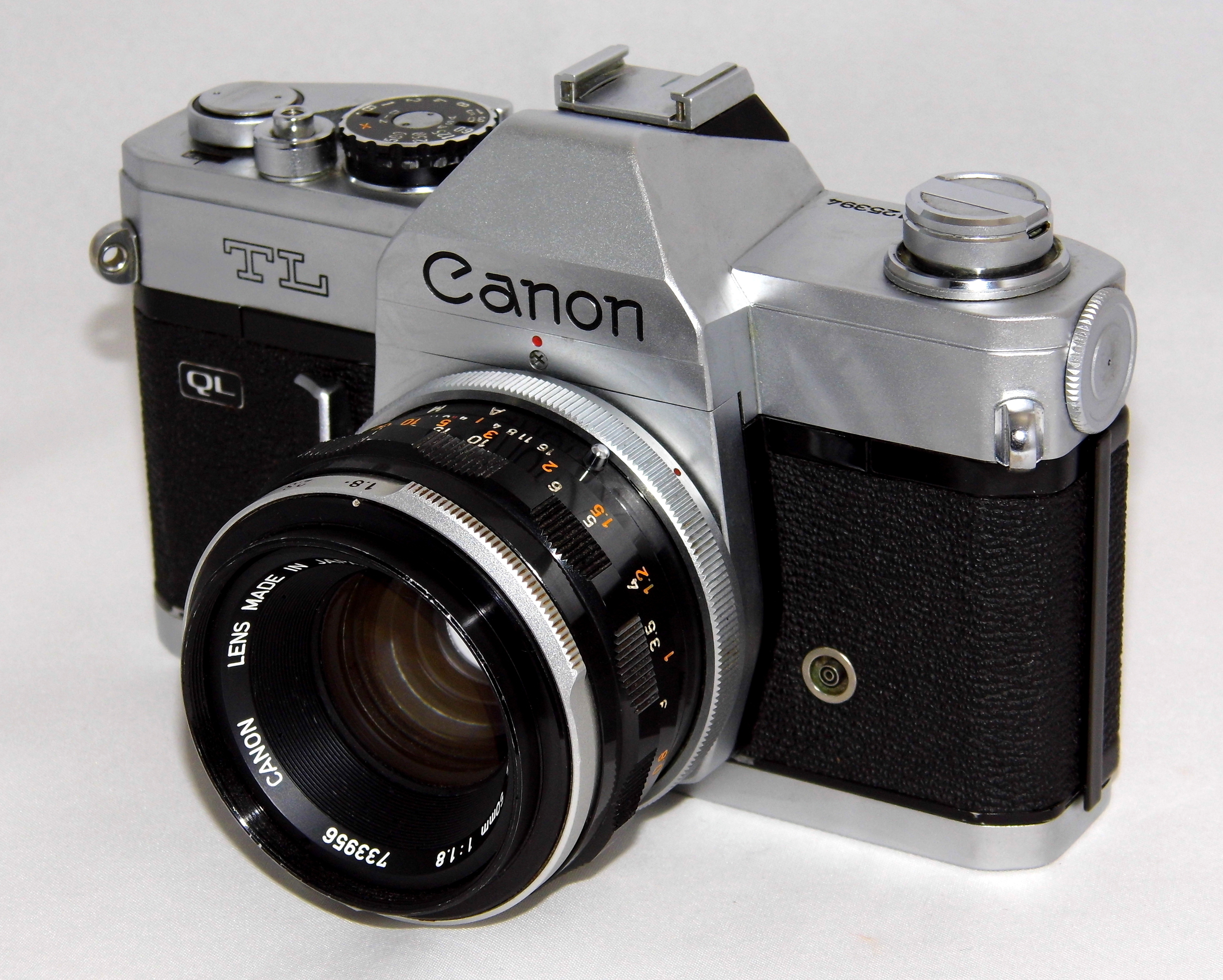 Vintage Canon TL QL 35mm SLR Film Camera, Made In Japan, Circa 1968 - 1972